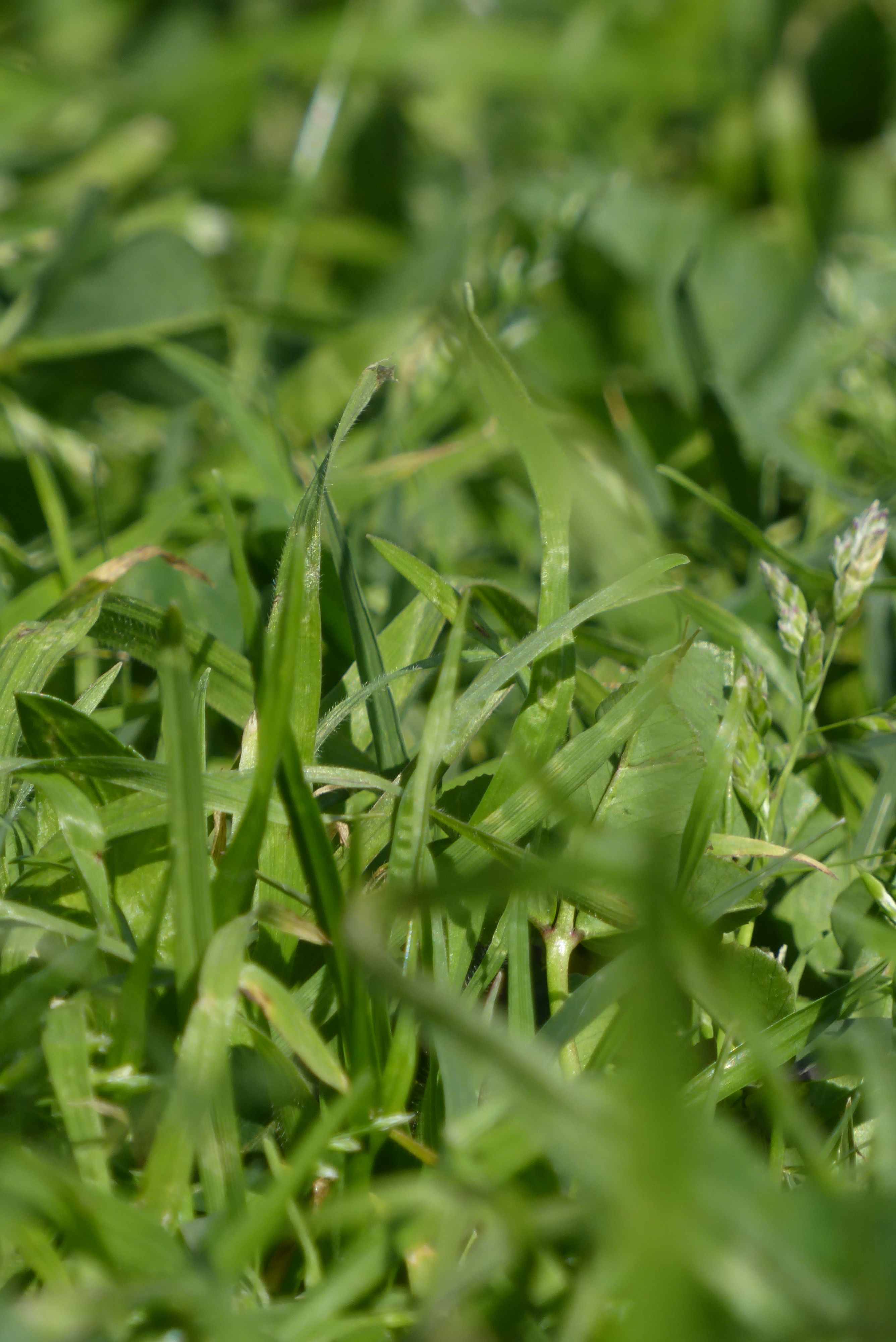 Flora of Israel